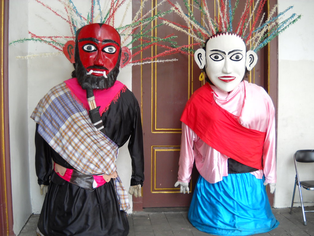 Ondel-ondel in Wayang Museum Jakarta, 2010.